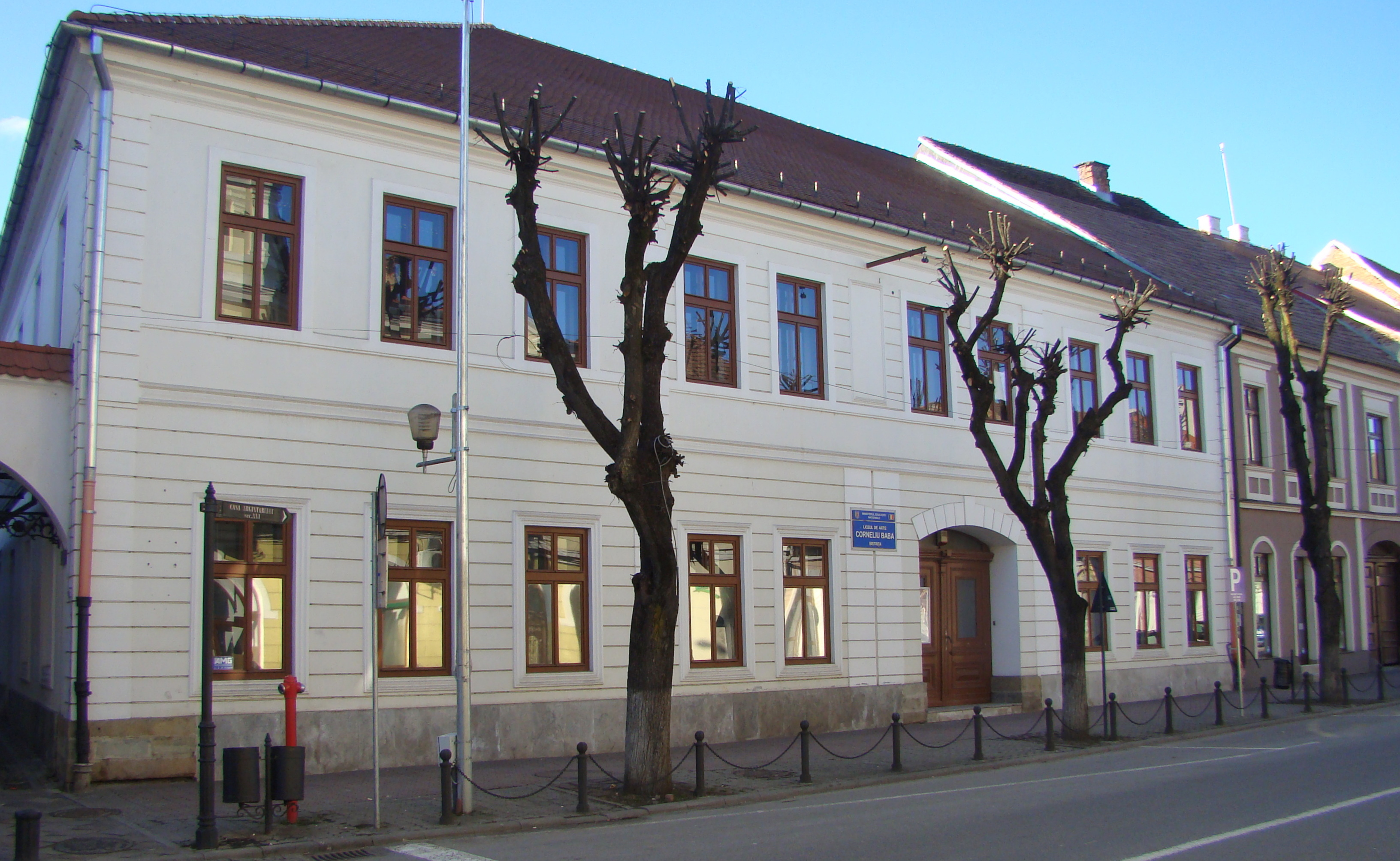 House, historic monument, in Bistriţa, Dornei street, number 1